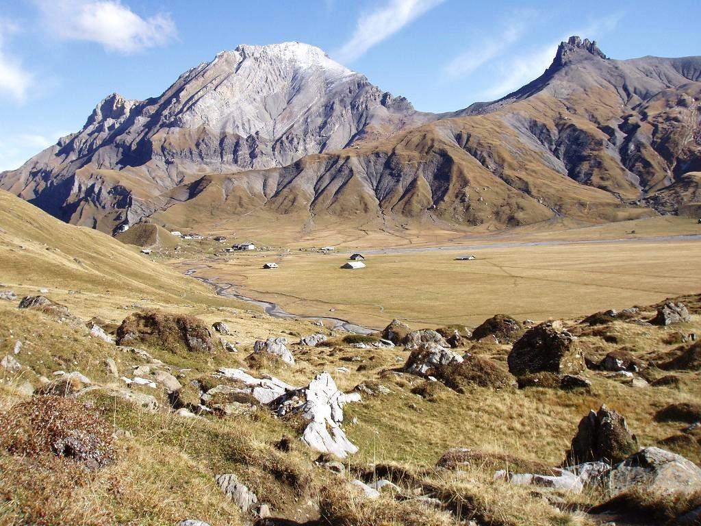 Engstligenalp (2000 m), above Adelboden